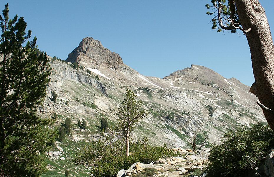 Snow Lake Peak in the Ruby Mountains of Nevada, looking northwest from the Ruby Crest Trail in Lamoille Canyon. At the upper right is a summit known as Full House Peak, above Island Lake, and near Thomas Peak.